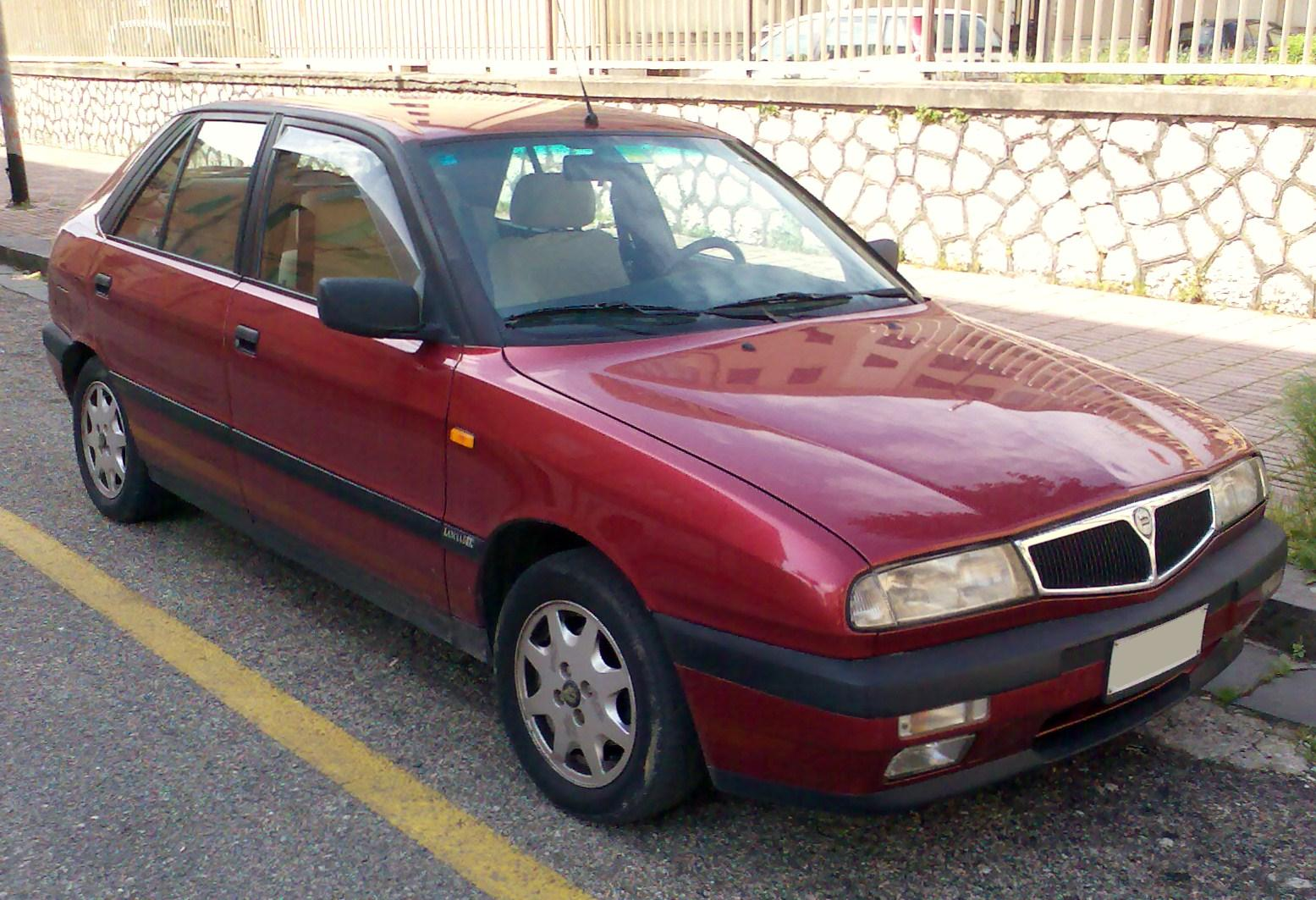 Lancia Delta Mk2